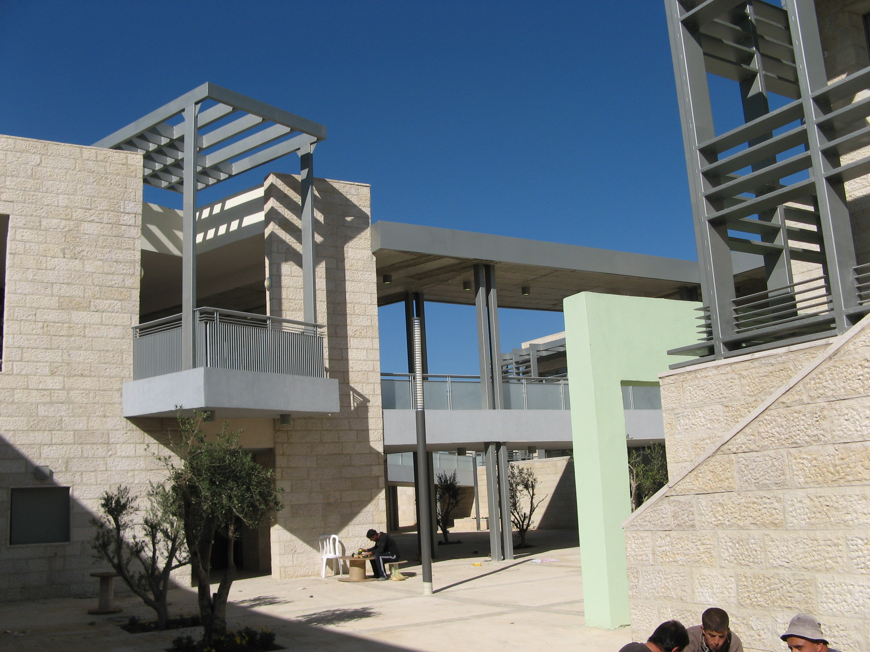 Bilingual High School in Jerusalem by Drukman Architects